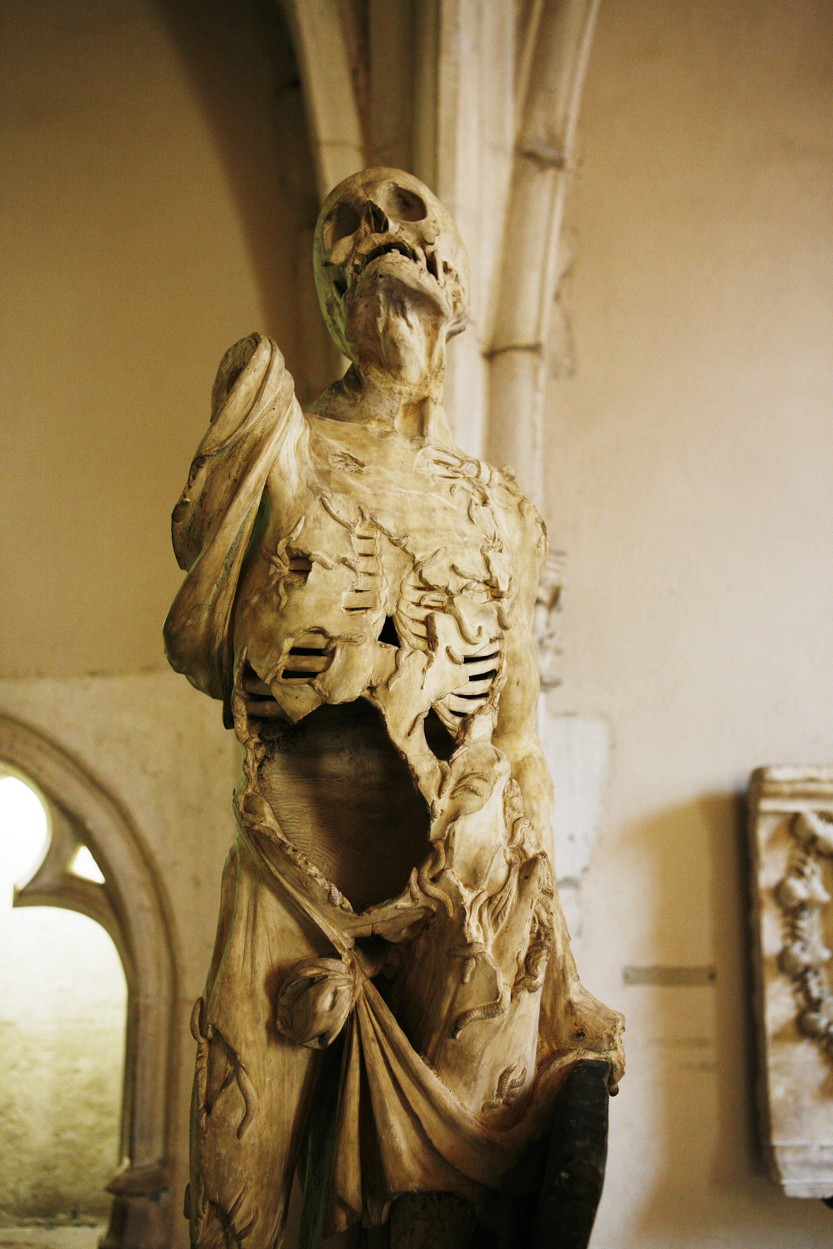 Écorché, by Ligier Richier Stone On display at Dijon fine arts museum. Ref. number 3743